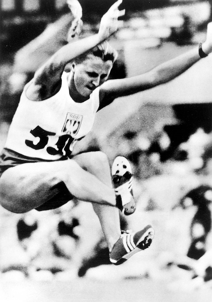 1956 Press Photo Elizabeta Krzesinska of Poland in broad jump record at Olympics